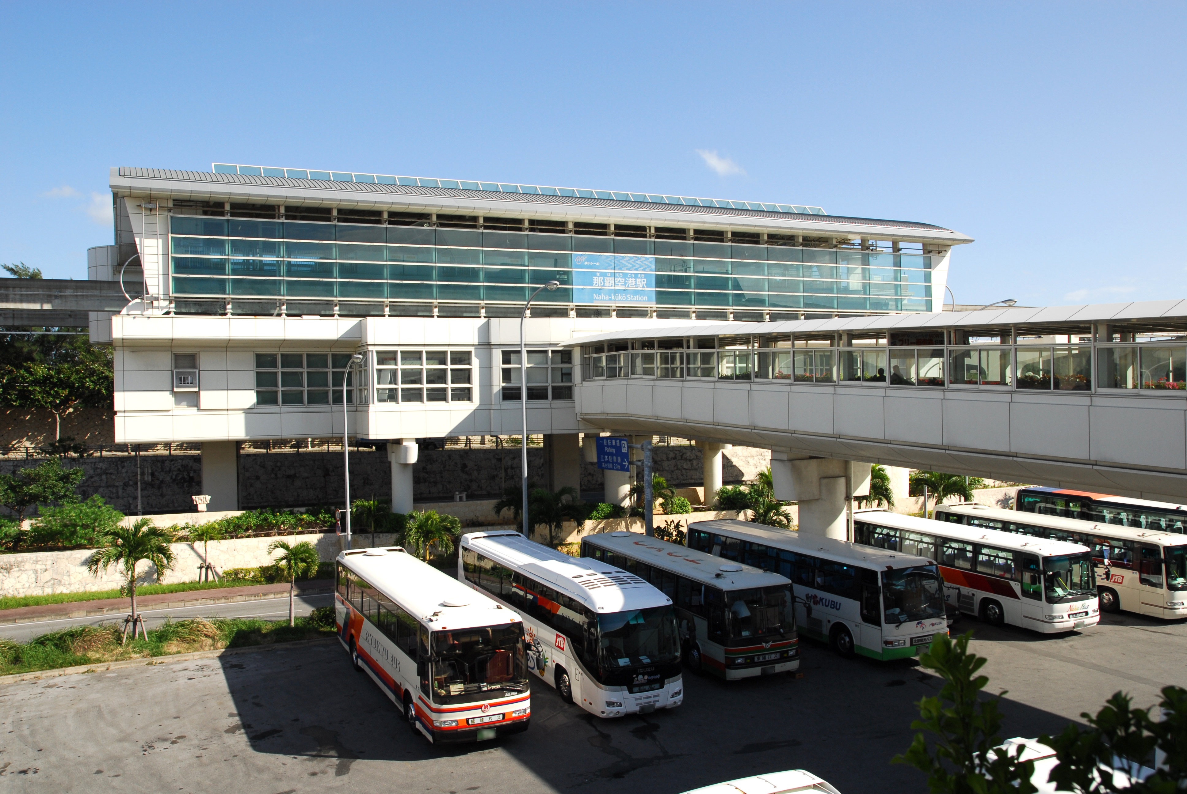 This station is a Naha airport station in Naha City. It is a station in Japan westernmost.